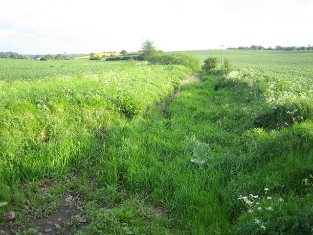 River Beane near Aston. Viewed looking downstream from the footbridge over the ford on an unnamed lane, the river bed is totally dry here.